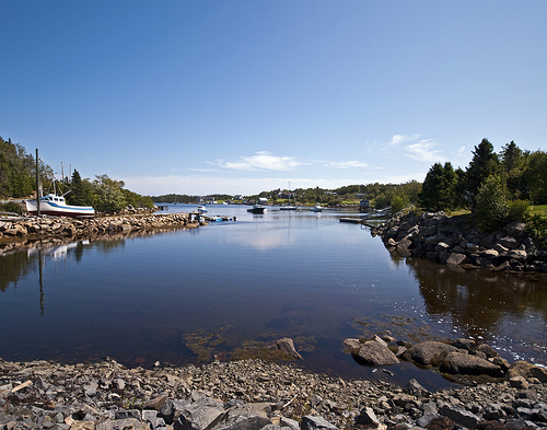 McGraths Cove, Nova Scotia. Located Near Peggy`s Cove, McGraths Cove is a well known village on Route 333